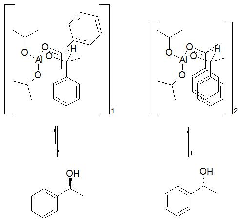 Transition states of Meerwein-Ponndorf-Verley reduction